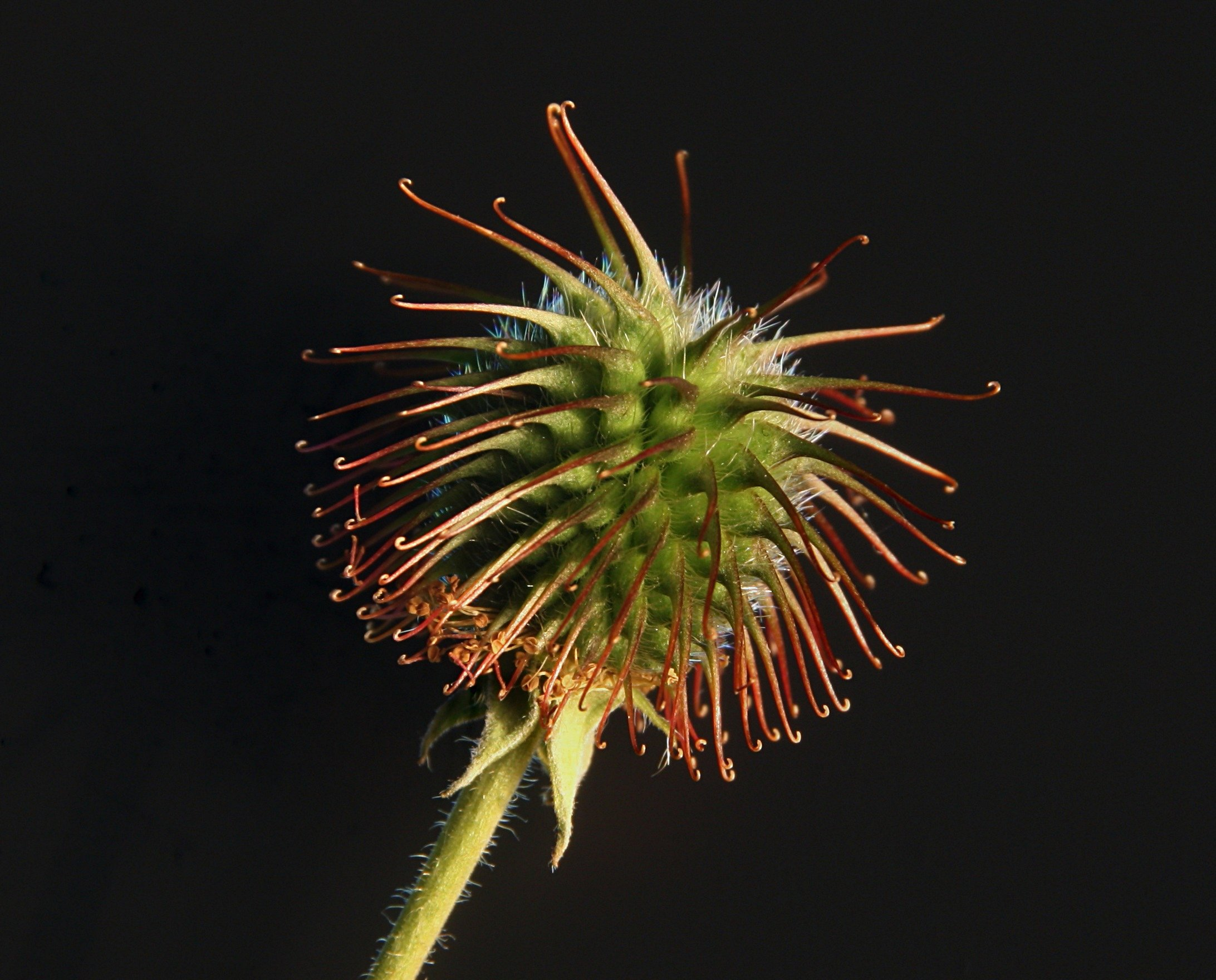 A burr. This fruit attaches to animal fur via the hooks on its surface to improve distribution. Velcro is an example of a biomimetic invention which has copied burrs and uses small flexible hooks to reversibly attach to fluffy surfaces.